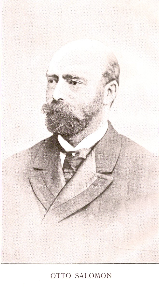 Otto Salomon (1849-1907), headmaster of Nääs Slöjdlärareseminarium in Sweden.